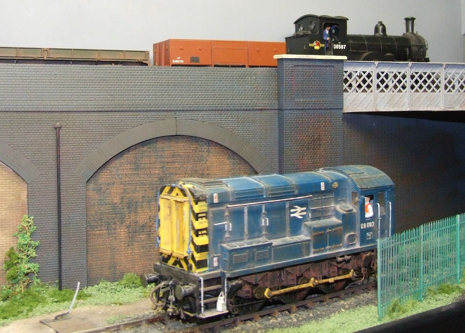 Locomotor model. A truly surperb O gauge layout at the recent Kew Bridge "Trains and Boats" exhibition. More pictures of this layout may be seen in my Brighton model world photographs.